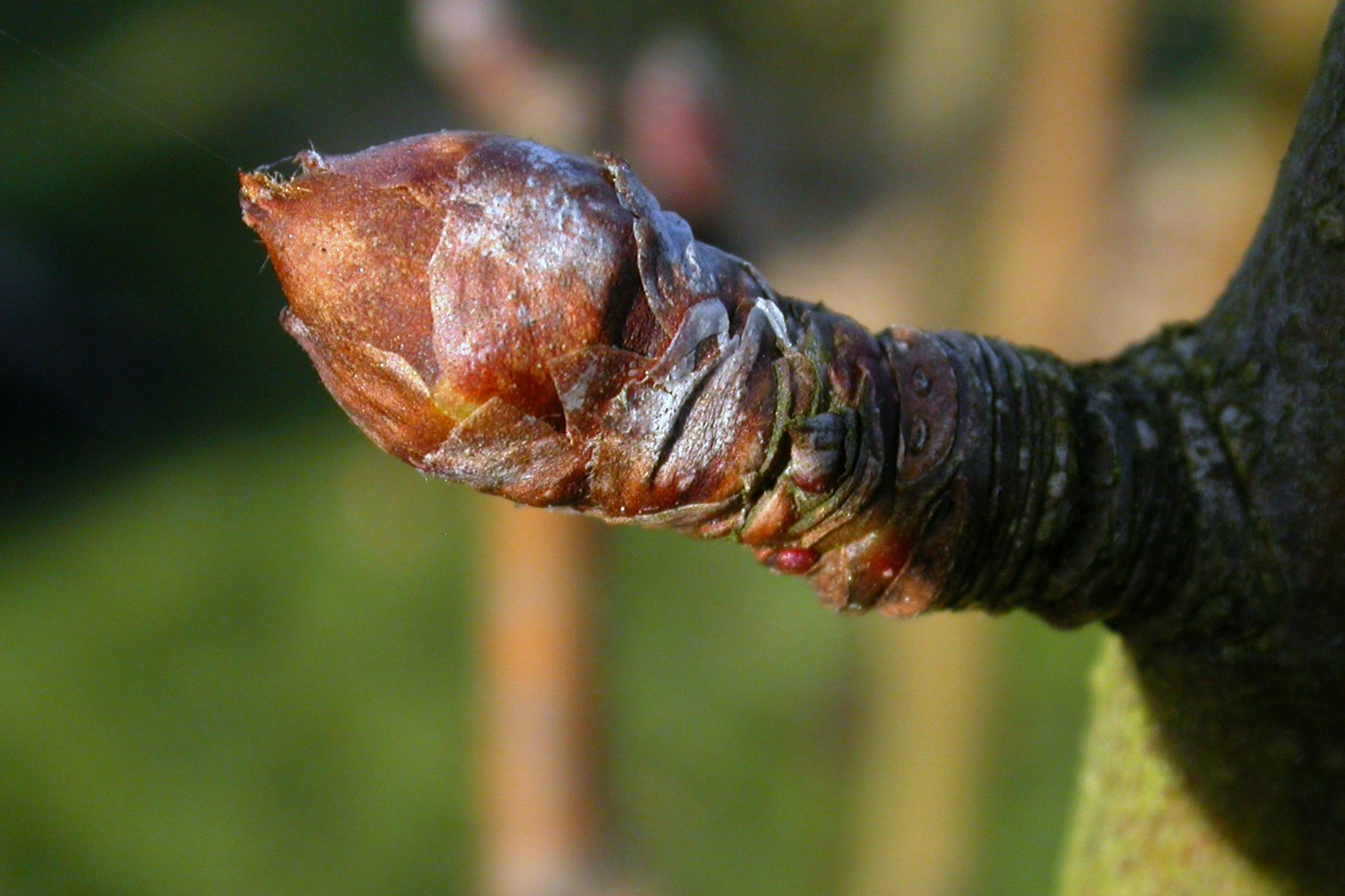 Pear flower bud